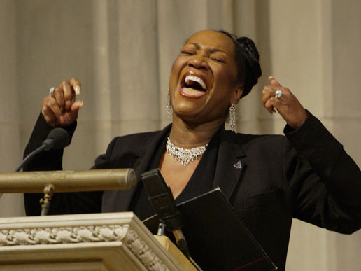 Patti LaBelle singing at the memorial service for Space Shuttle Columbia. At the Feb. 6 memorial service for Columbia, Patti Labelle sang "Way Up There", a song commissioned by the NASA Art Program to celebrate the Centennial of Flight in 2003. The song was written by Tena R. Clark.